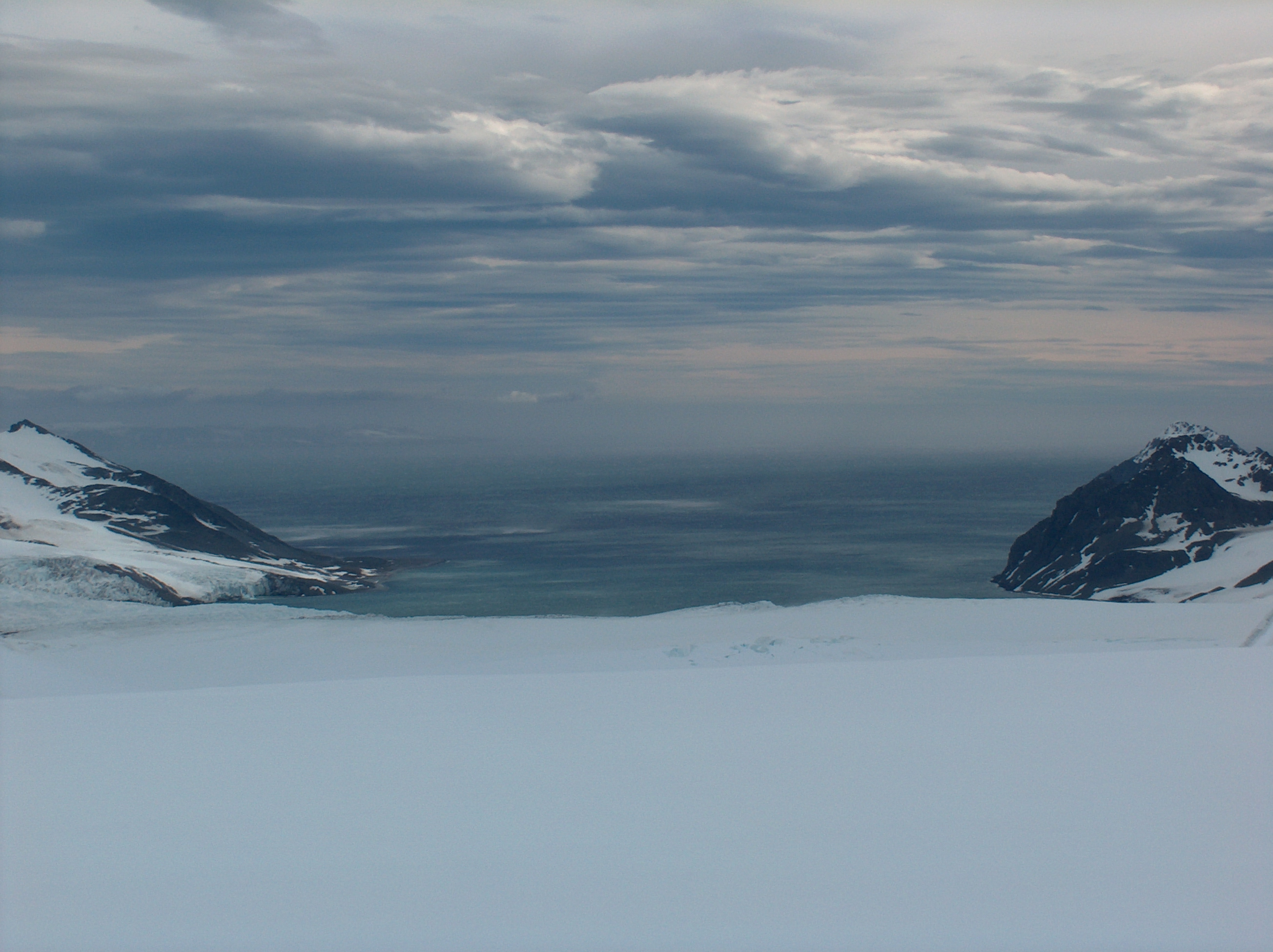 Storm over False Bay, Livingston Island in Antarctica